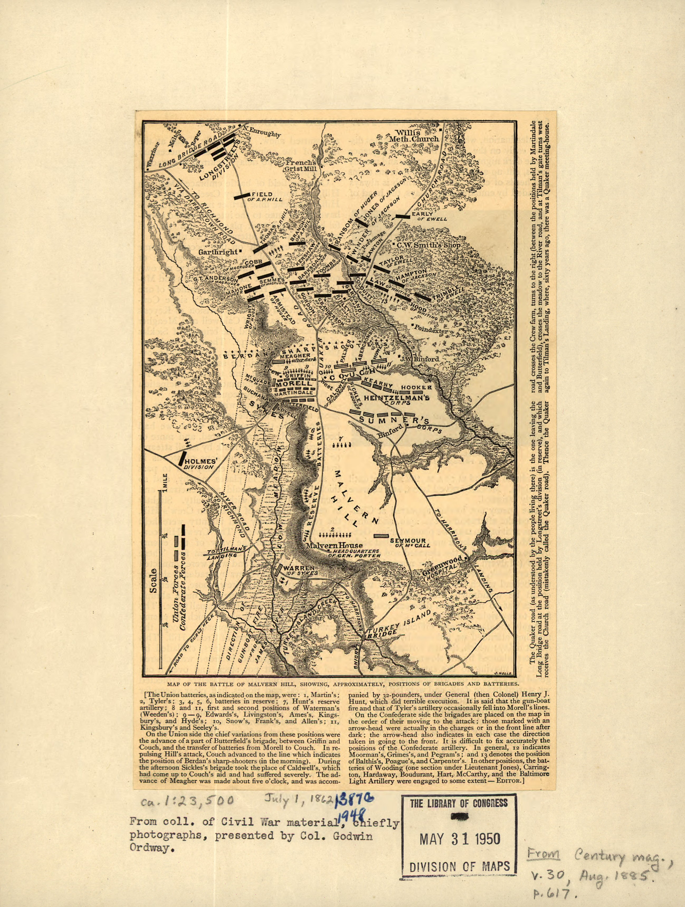 Map of the battle of Malvern Hill, showing, approximately, positions of brigades and batteries. [July 1, 1862].